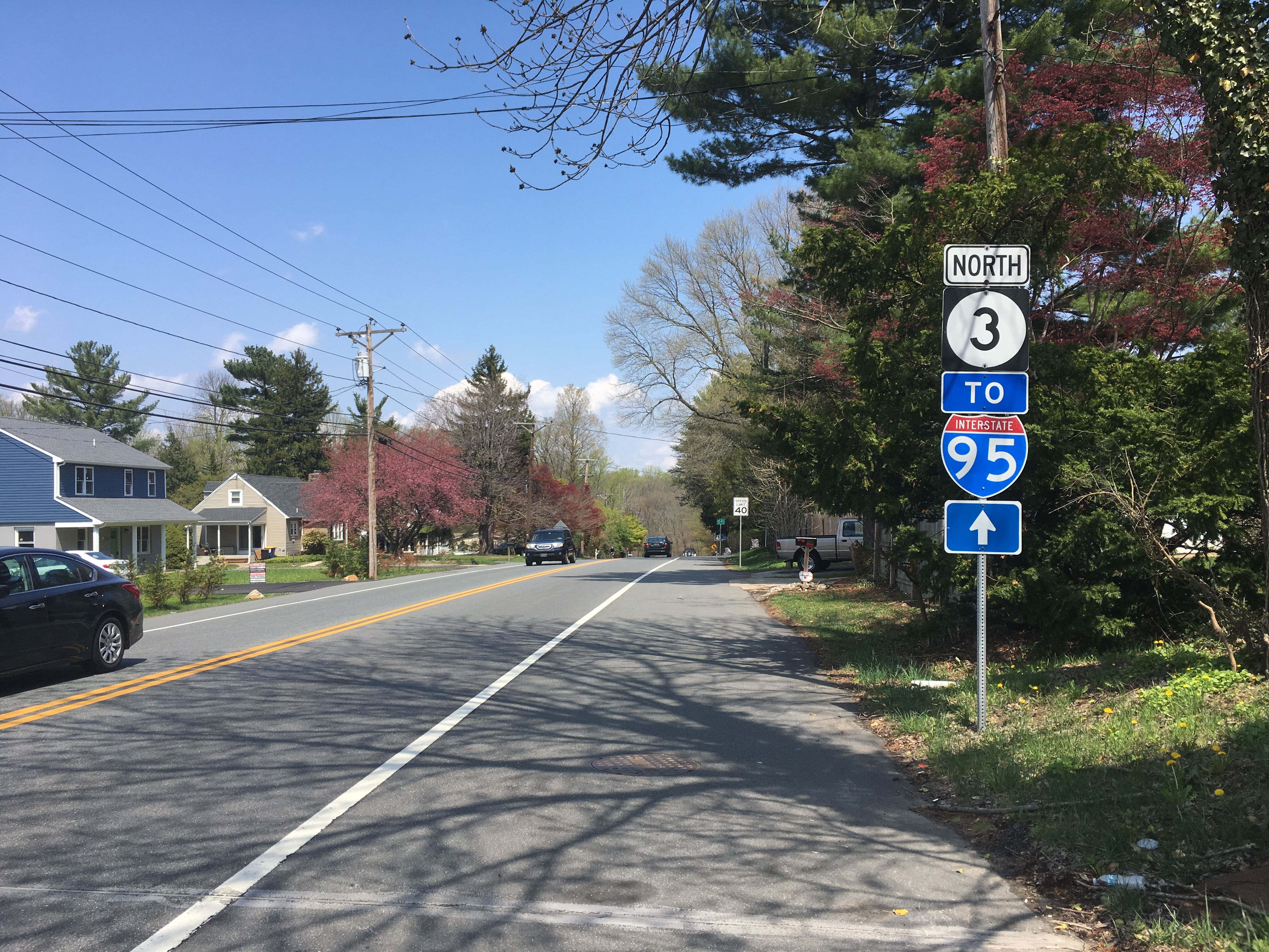 Northbound Delaware Route 3 (Marsh Road) past the intersection with Grubb Road/Harvey Road in Arden, Delaware